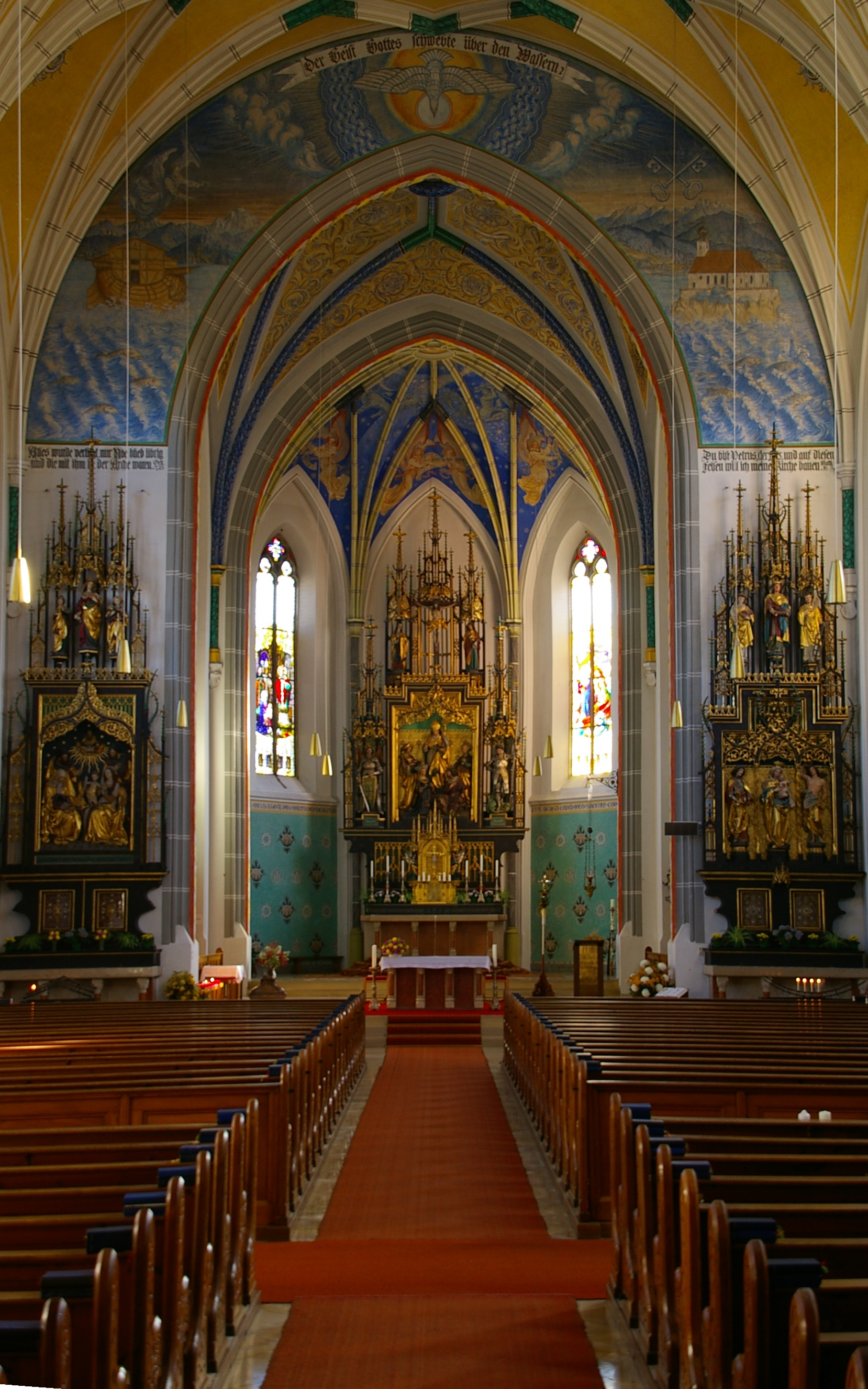 Nave of St Nikolaus in Übersee.